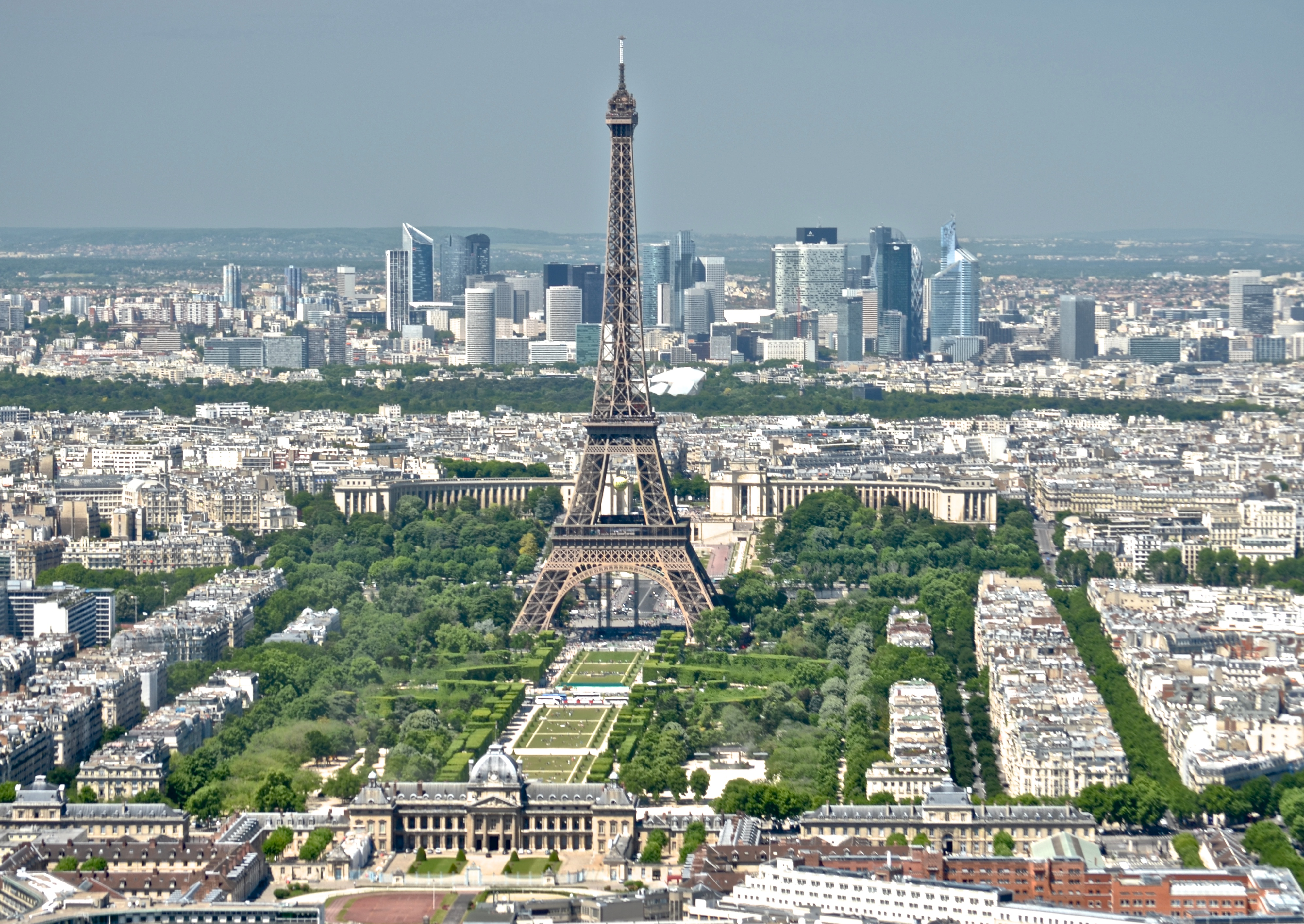 Eiffel Tower from the Tour Montparnasse, Paris.